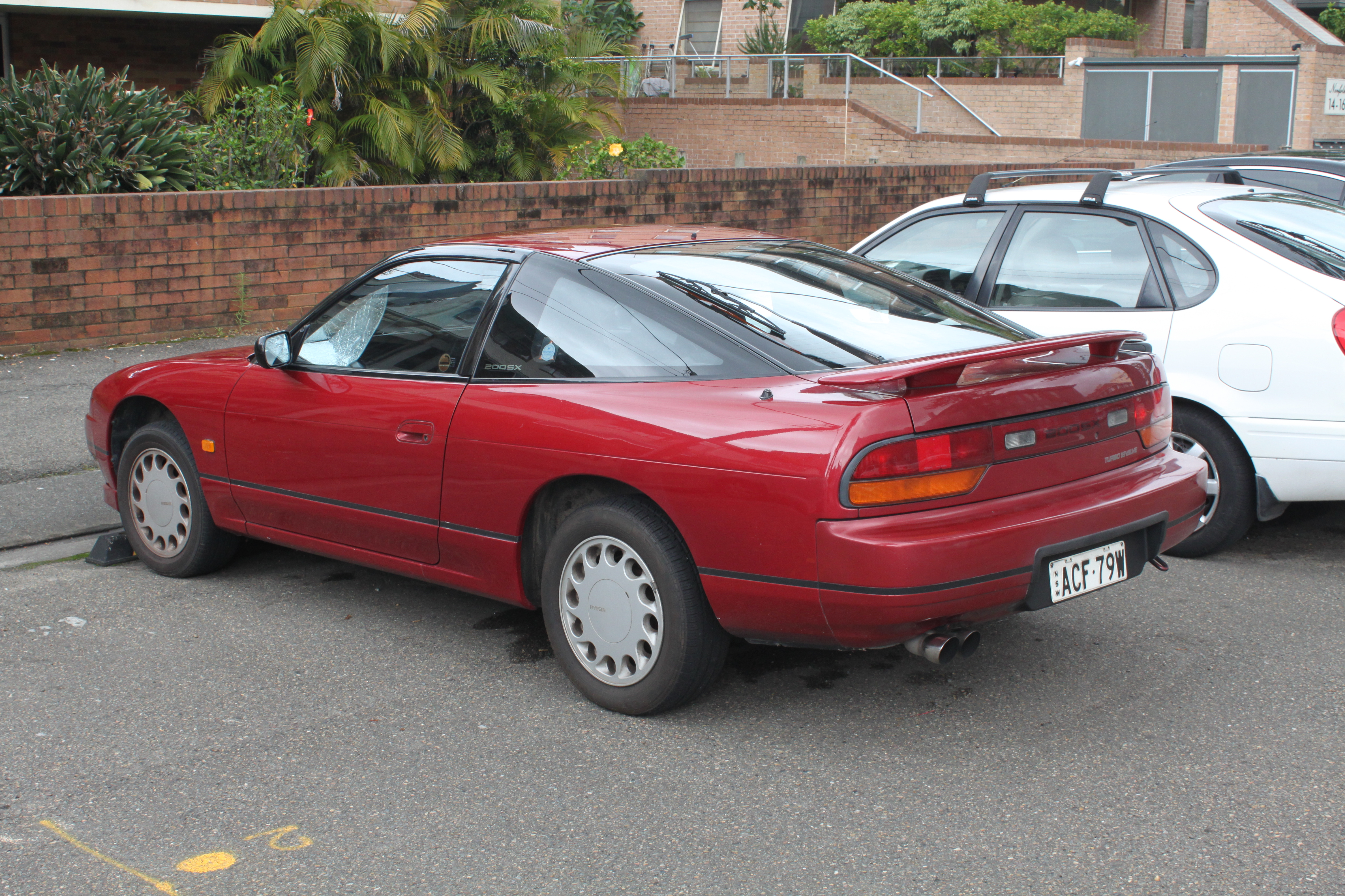 Rare to see one of these unmodified!